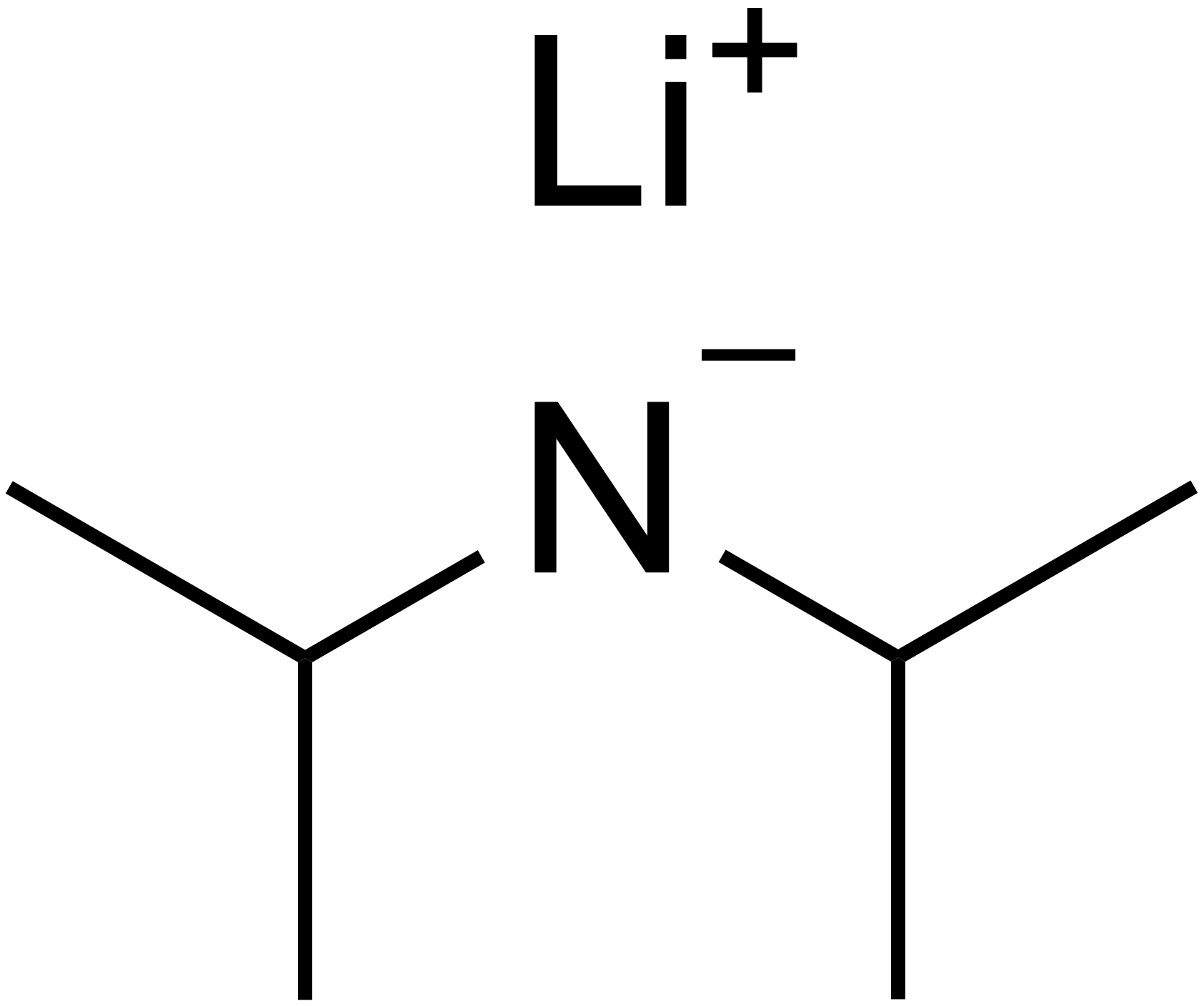 chemical structure of lithium diisopropylamide